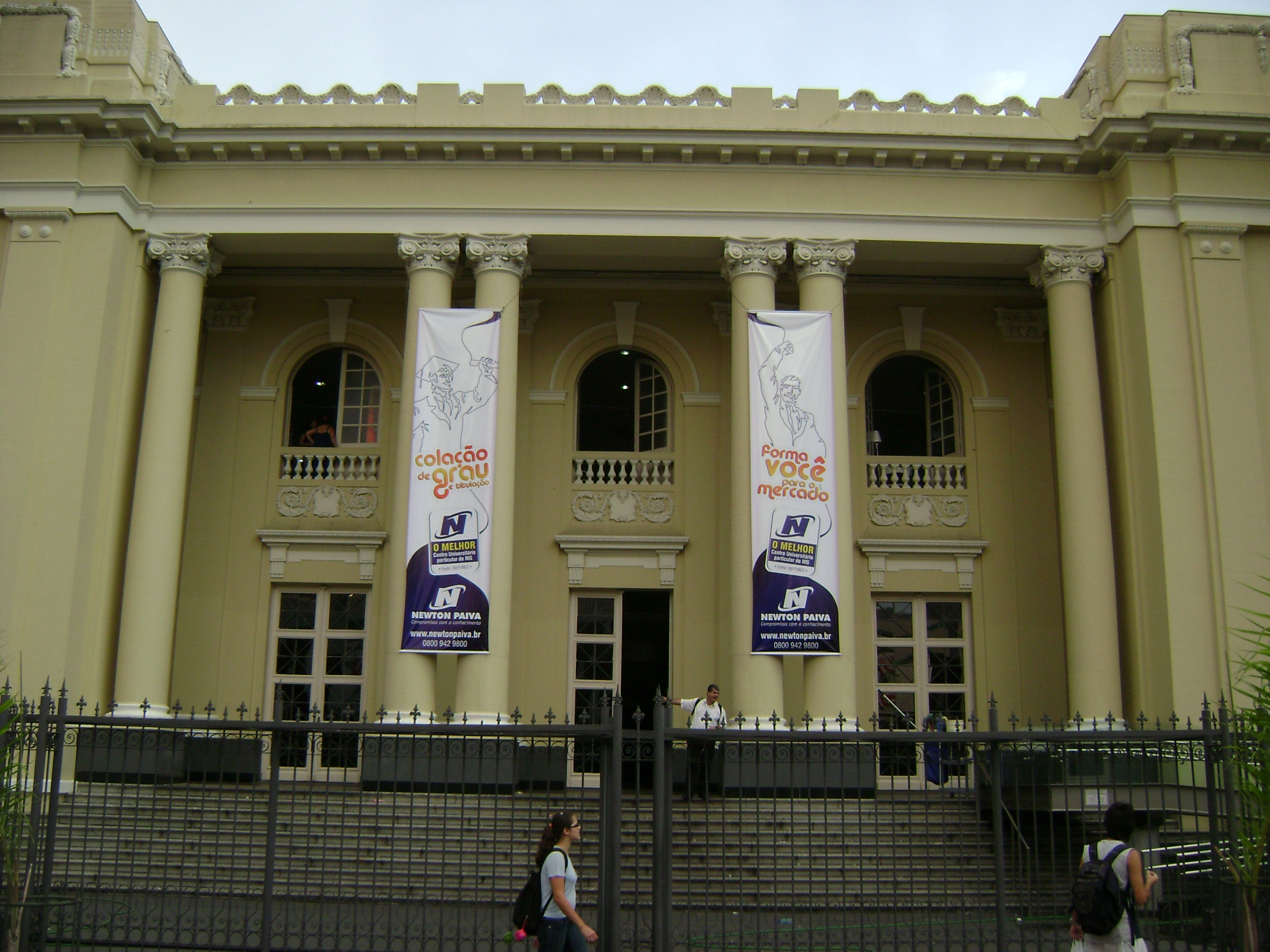 Minascentro, in Belo Horizonte.